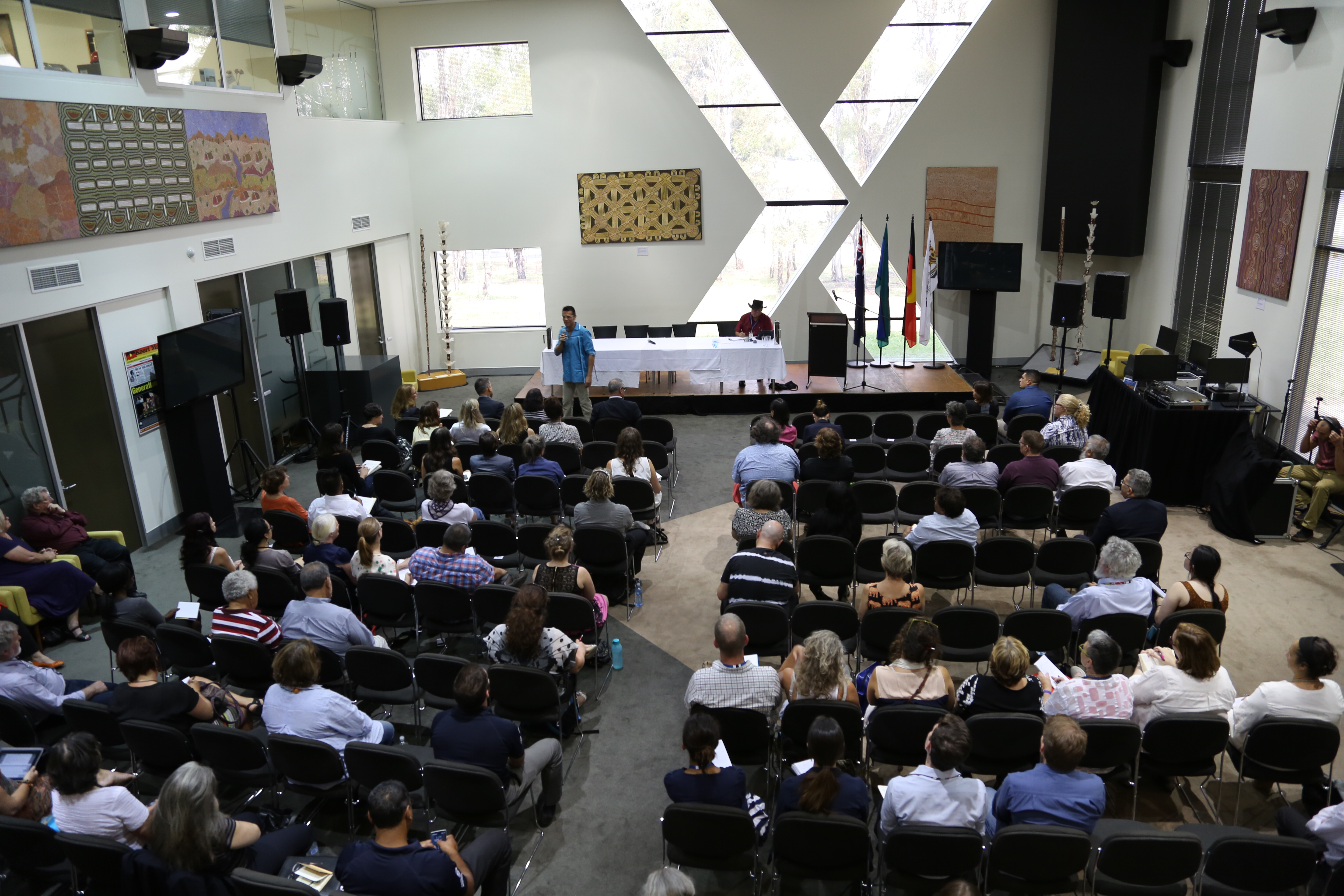 Keynote speaker, Professor Taiaiake Alfred addresses the audience during the symposium "Cultural strength: Restoring the place of Indigenous knowledge in practice and policy', Stanner Room, AIATSIS, 11th February, 2015. Professor Mick Dodson, AM, was the Panel Chair of this event and is pictured seated on stage.